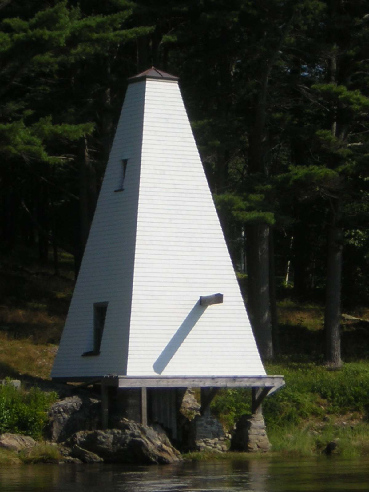 Fiddlers Reach Fog Signal Station, Georgetown, Maine, USA